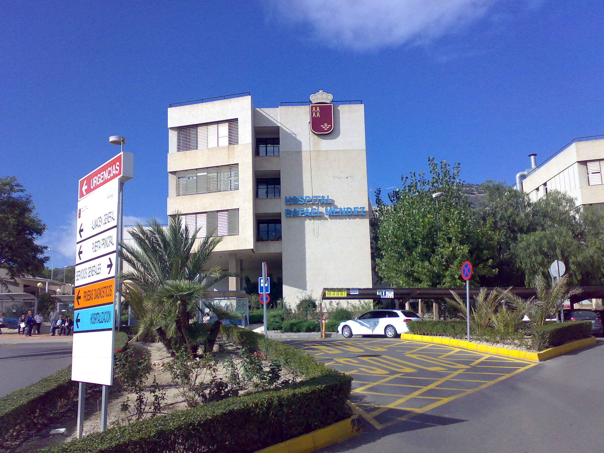 Main facade of the Hospital Rafael Méndez